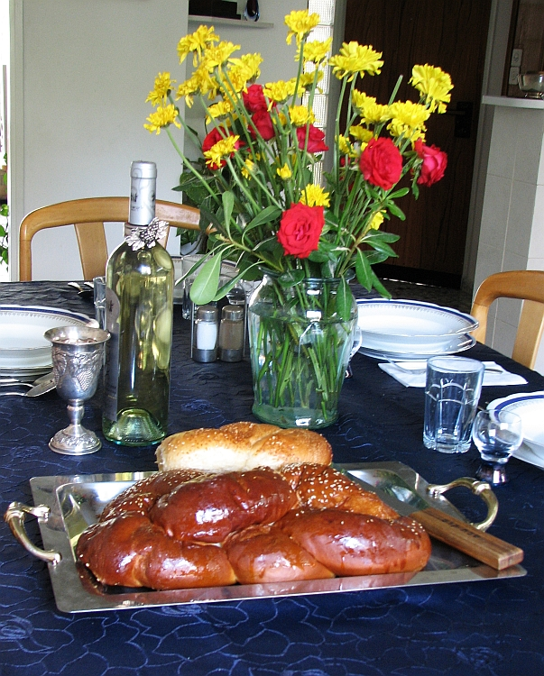 Table set for Shabbat with challah and wine.